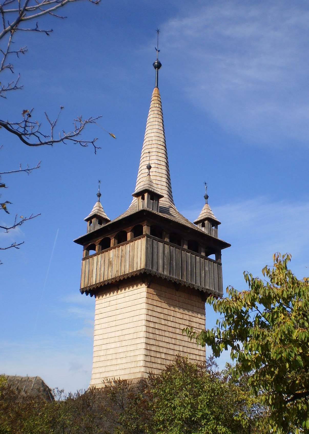 Belfry, Nemesborzova, Hungary